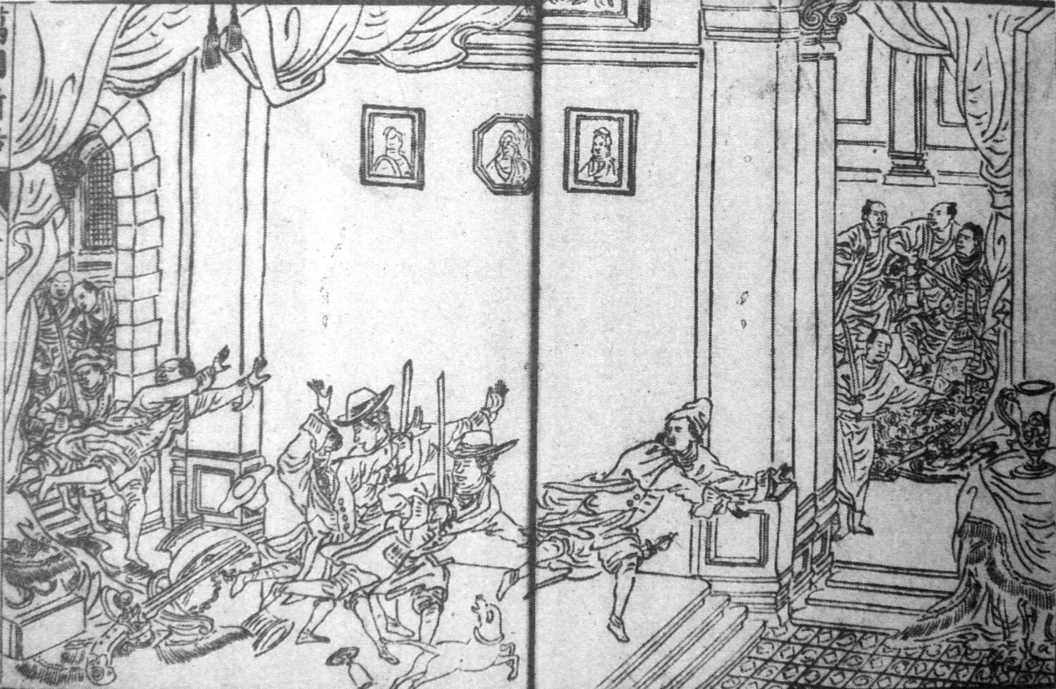 Capture_of_Nuyts_by_the_Japanese_in_1628 in the castle of New Zealandia, Taiwan.